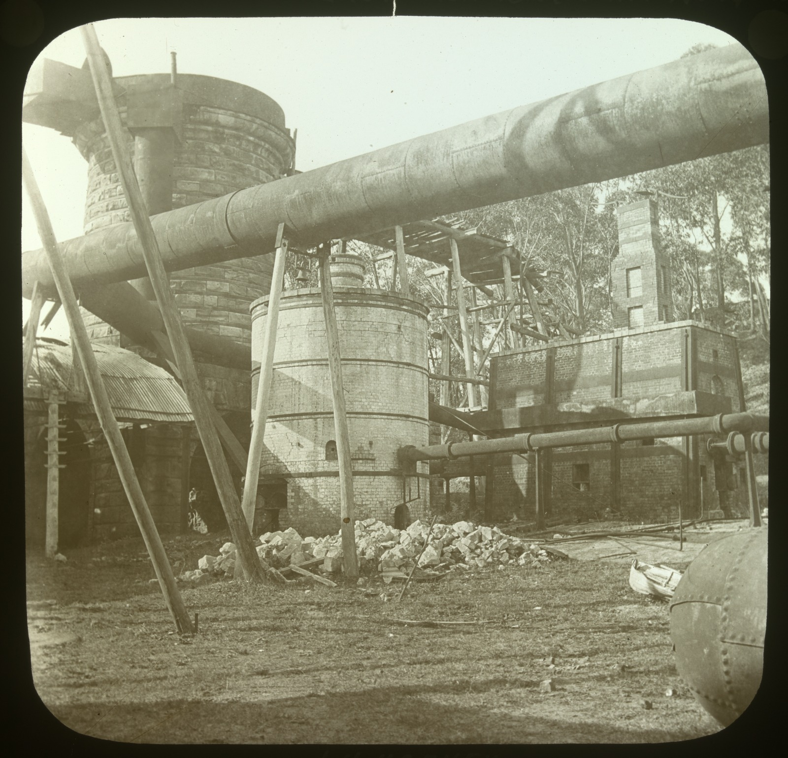 This photograph shows the blast furnace area of the Fitzroy Iron Works at Mittagong, N.S.W. Australia. The photograph's date is unknown but must be between 1875 and 1938 (based on photographer's working life). It must be before 1913 as other photographs show that the buildings surrounding the blast furnace had been demolished by that date.The furnace is the large sandstone structure on the left hand side. The trestle used to access the furnacce top is visible. The 'two stoves' are visible in front of the furnace; one is rectangular and has a brick chimney - the one added by John Kay Hampshire - and the other cylindical - the one added by Thomas Trevick. Note the large inclined metal pipe that carried furnace off-gases to the boiler house. This is connected to the vertical downcomer pipe added by Thomas Trevick.